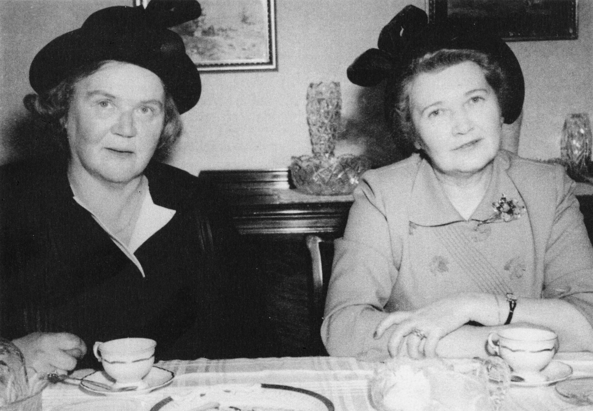 Photograph of the Finnish writer duo Tuttu Paristo (Elsa Soini and Seere Salminen).